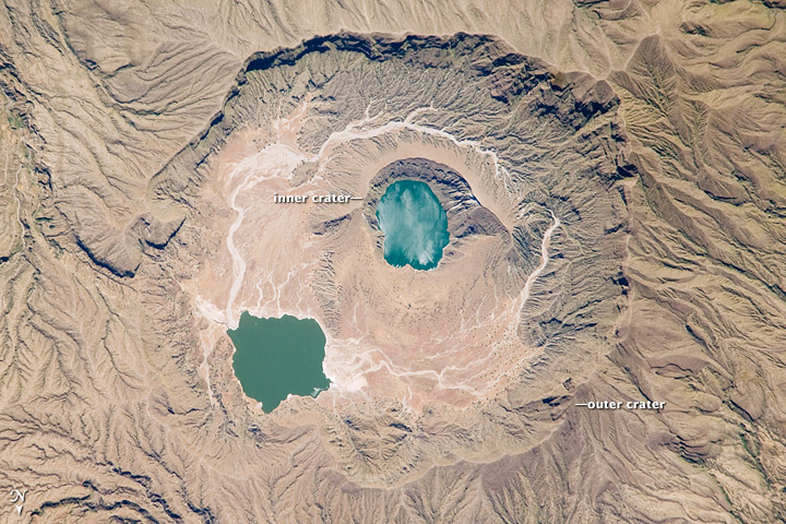 Deriba Caldera, Sudan Astronaut photograph ISS018-E-6051 was acquired on October 29, 2008, with a Nikon D2Xs digital camera fitted with an 800 mm lens, and is provided by the ISS Crew Earth Observations experiment and the Image Science & Analysis Laboratory, Johnson Space Center.